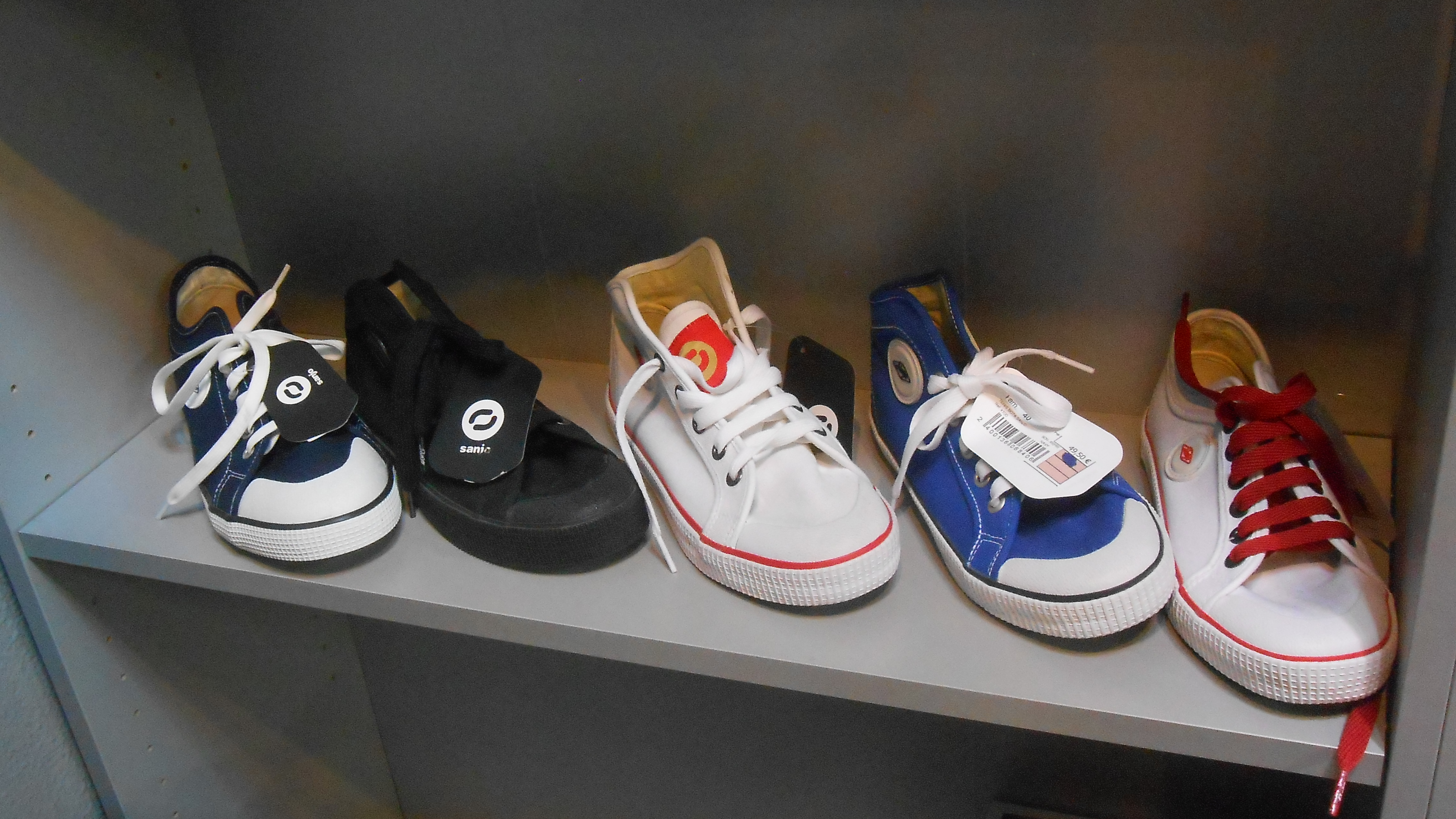 Display of Sanjo sneakers in the Plano B shop in portuguese seaside town Figueira da Foz, august 2014.